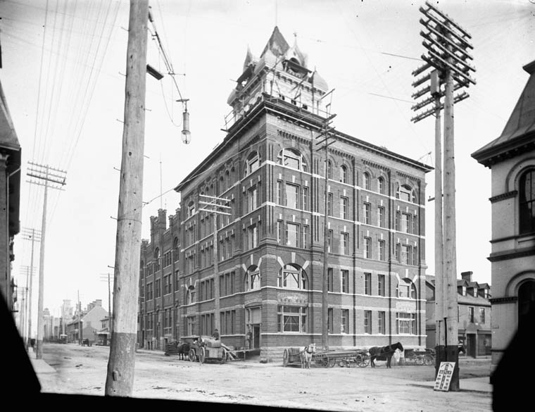 Garland Building, S.E. corner of Queen & O'Connor Streets, Ottawa, Ontario. , November 1898.